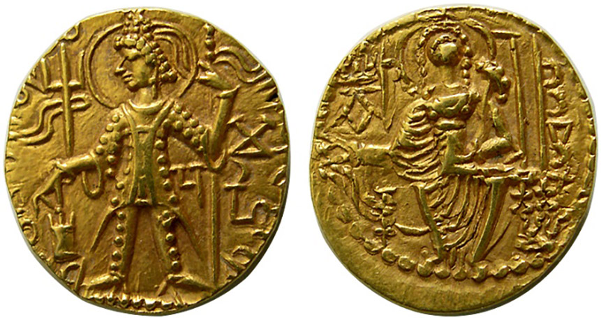 Vasudeva II